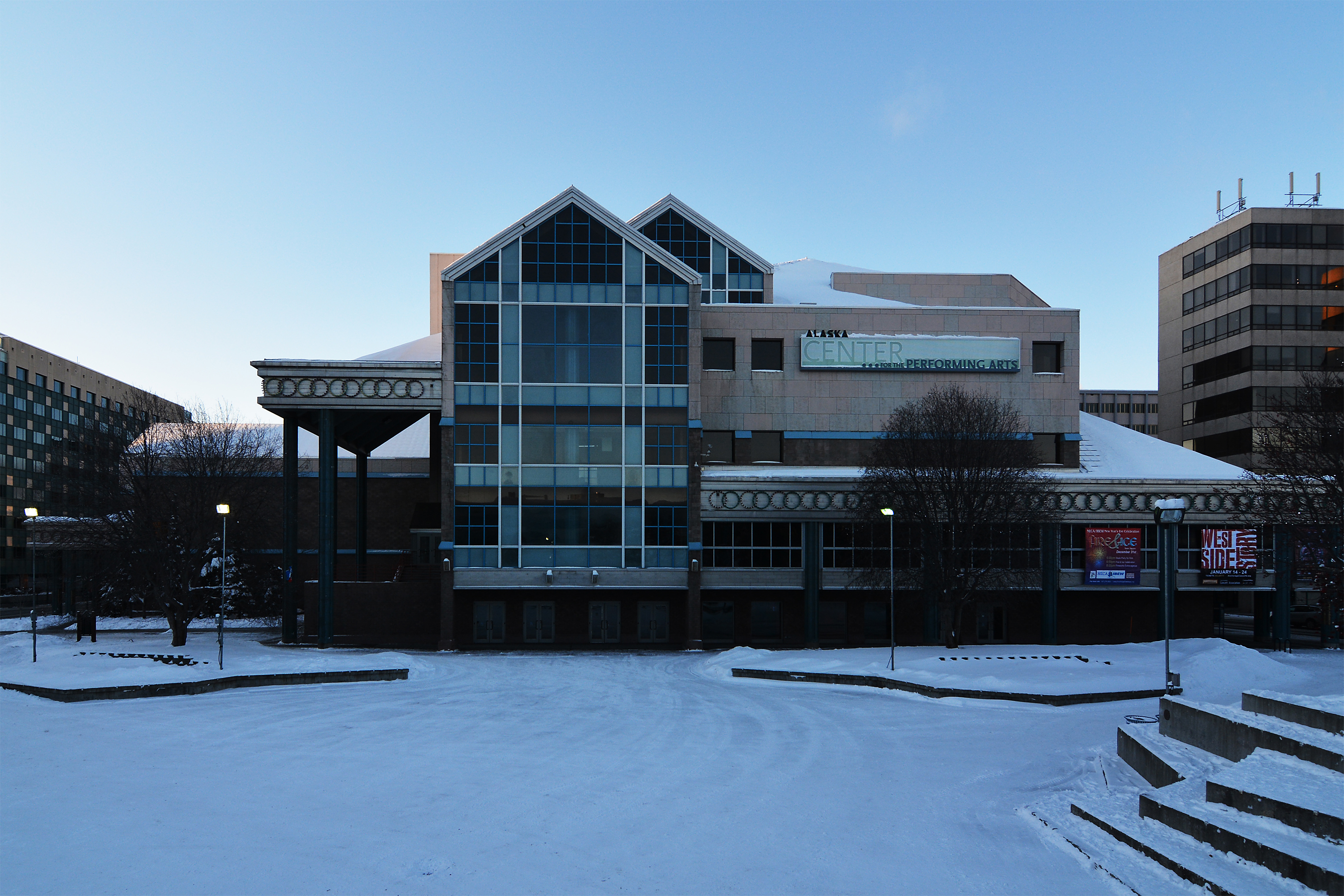 The Alaska Center for the Performing Arts, in downtown Anchorage, Alaska, taken on Christmas Day 2013